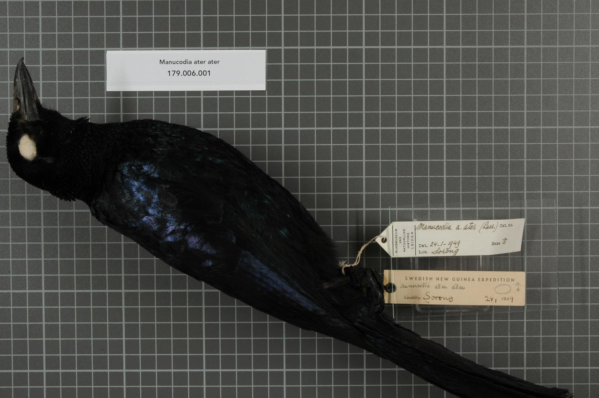 Manucodia ater ater (Lesson, 1830)